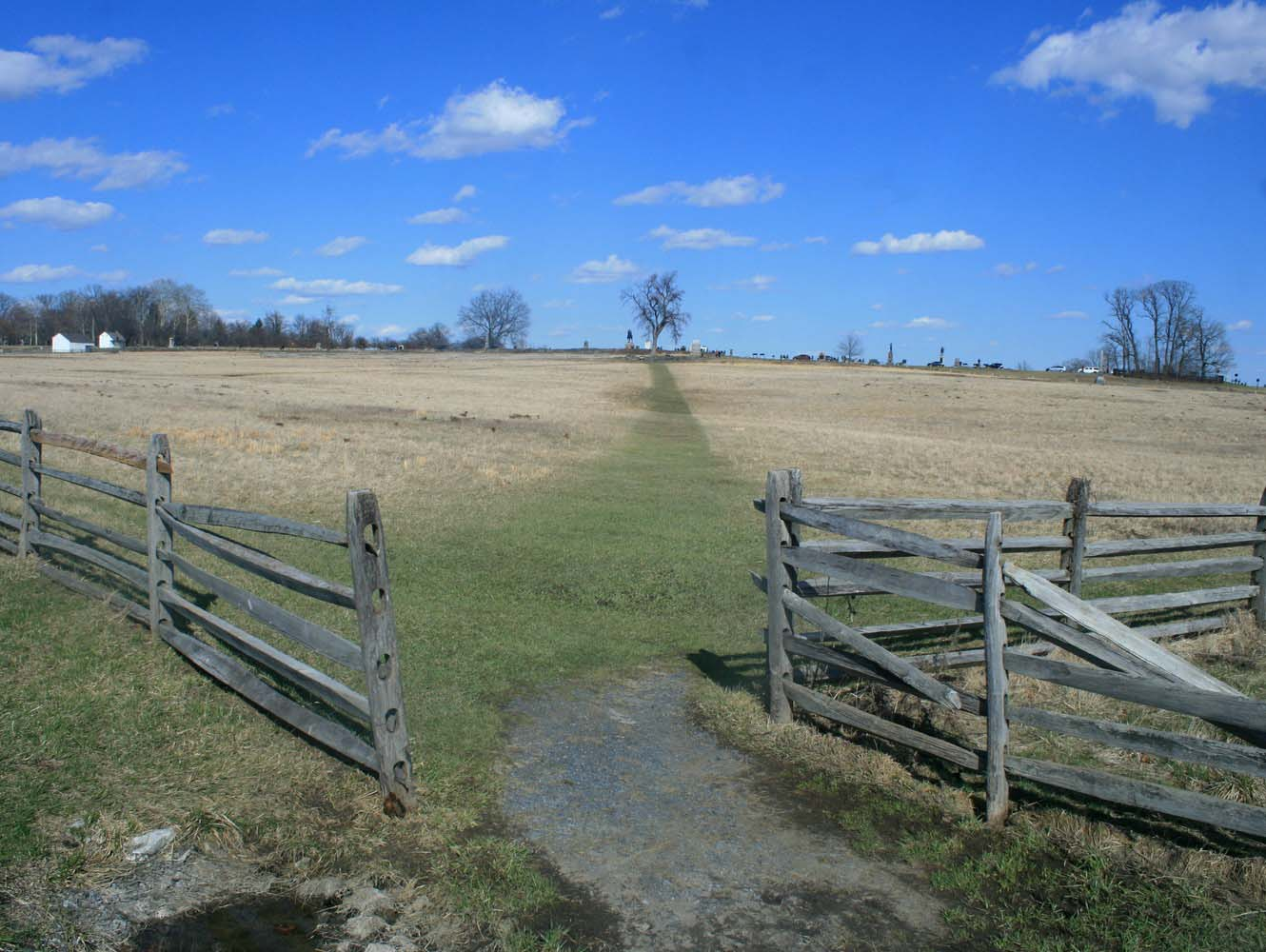 The pedestrial trail from Emmitsburg road to The Ahgle